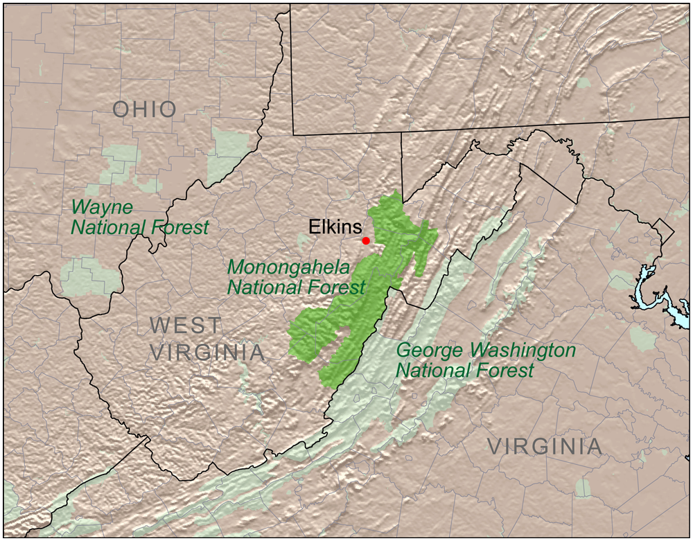 Map showing the location of the Monongahela National Forest in West Virginia, United States.